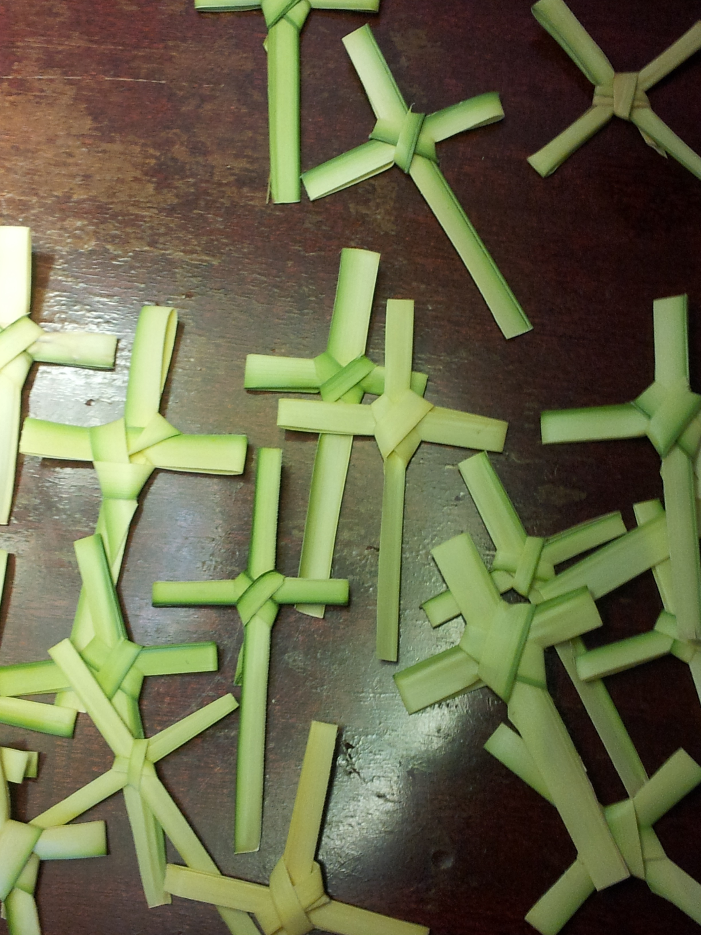 These are small crosses made up of palm on occasion of palm sunday.